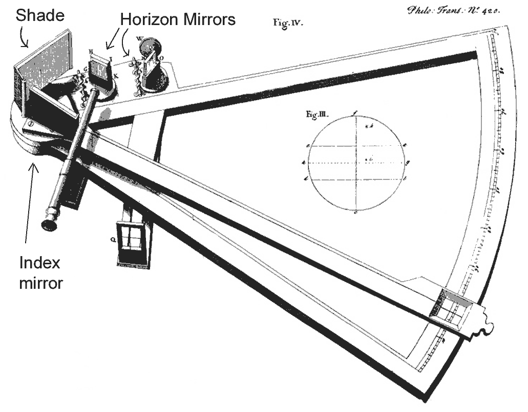 Drawing of John Hadley's octant.